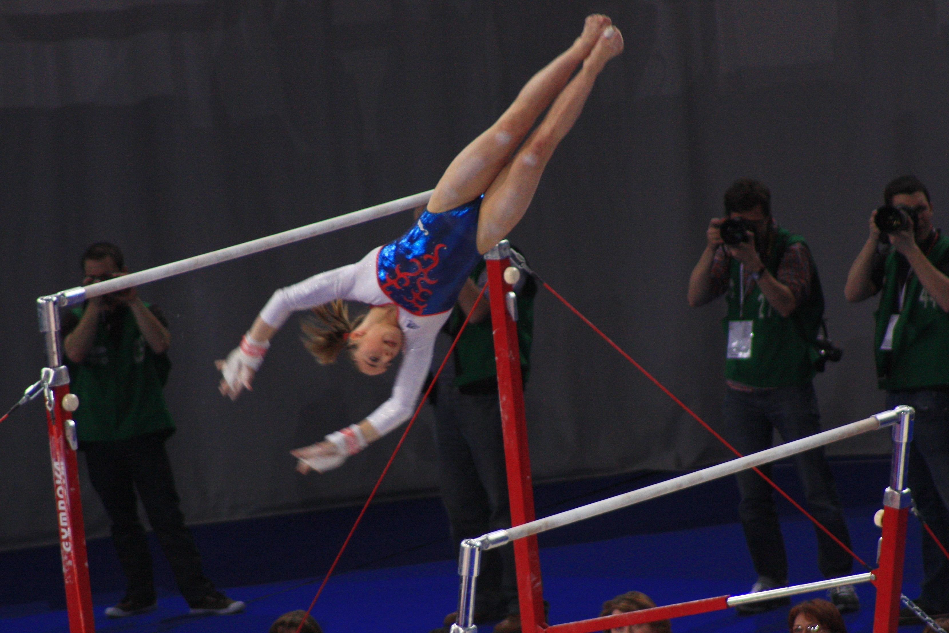 Lâcher de barres de Youna Dufournet, en qualification des 17e Internationaux de France, en 2010.